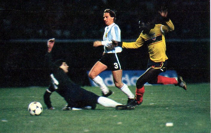 Argentina v. Ecuador at the Copa América, played in Buenos Aires. Enzo Trossero (3) defending the goal.